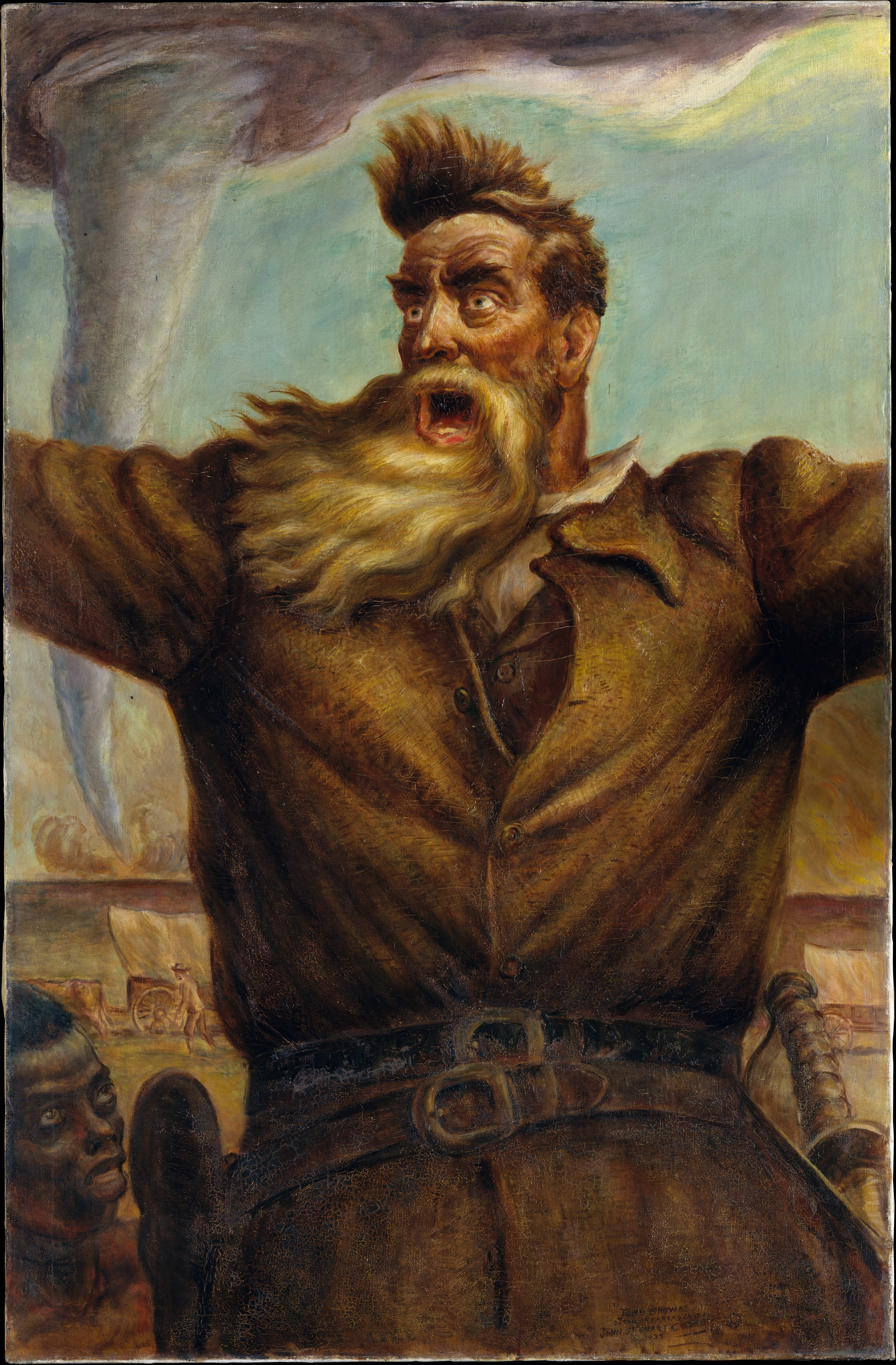 John Brown by John Steuart Curry (study for the Kansas Mural). Oil on canvas, 69 x 45 in. (175.3 x 114.3 cm). Throughout the 1930s, Curry, a native of Kansas, was closely associated with Thomas Hart Benton as a member of the artistic movement known as Regionalism. This painting by Curry is a large study for the artist’s mural in the rotunda of the Kansas State Capitol. One of the most compelling and controversial figures in nineteenth-century American history, John Brown devoted his life to opposing the extension of slavery in the 1850s into the Kansas Territory in battles that presaged the Civil War, which began in 1861. Curry depicted Brown larger-than-life in an open, stark landscape besieged by a tornado, a meteorological symbol for the conflict, and with a slave at his side. The abolitionist’s crazed expression and animated hair and beard suggest the messianic fervor that fueled his opposition to human bondage.